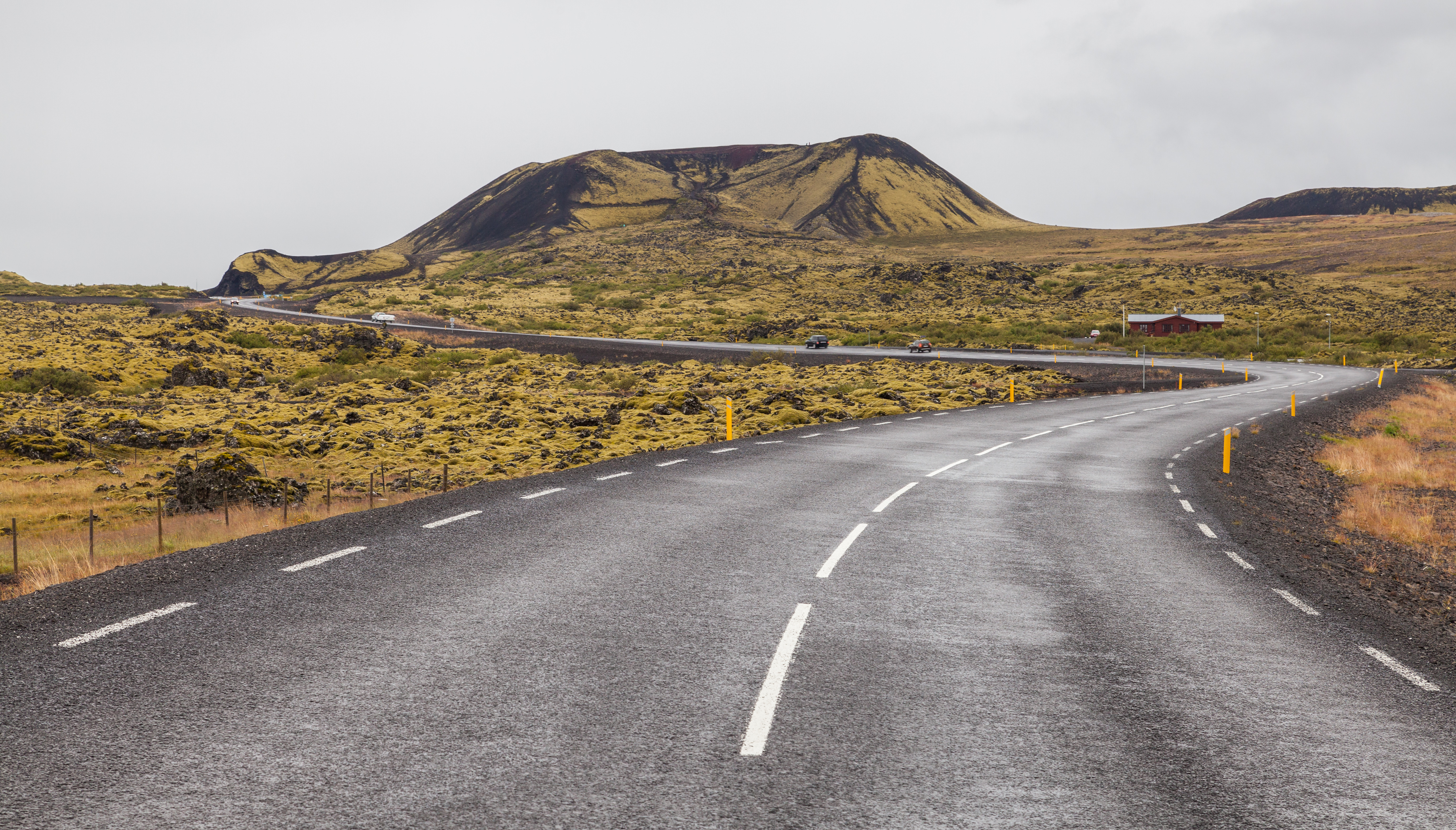 Stóri Grábrók crater, Vesturland, Iceland